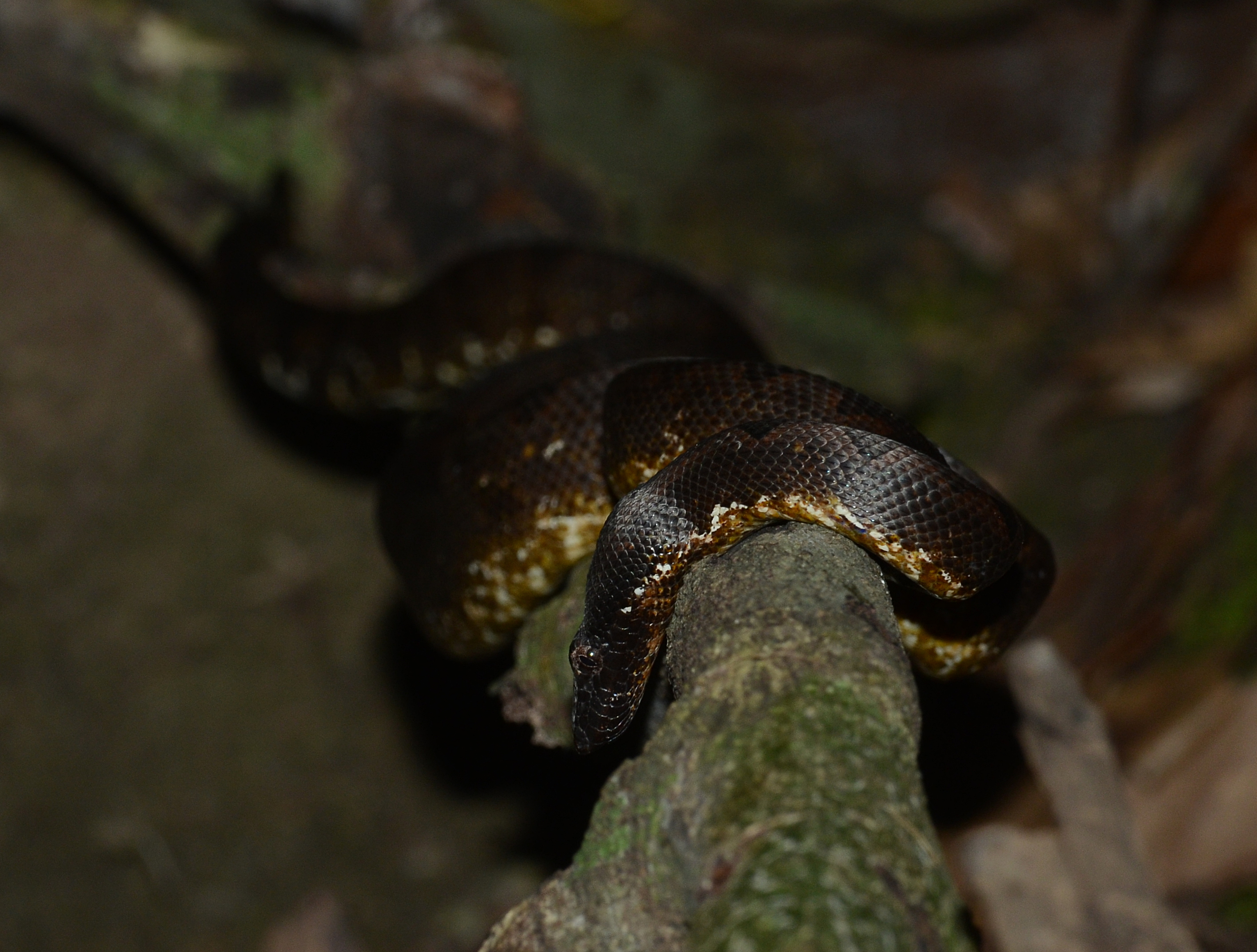 Pacific Ground Boa (Candoia carinata) at Siau Island, North Sulawesi